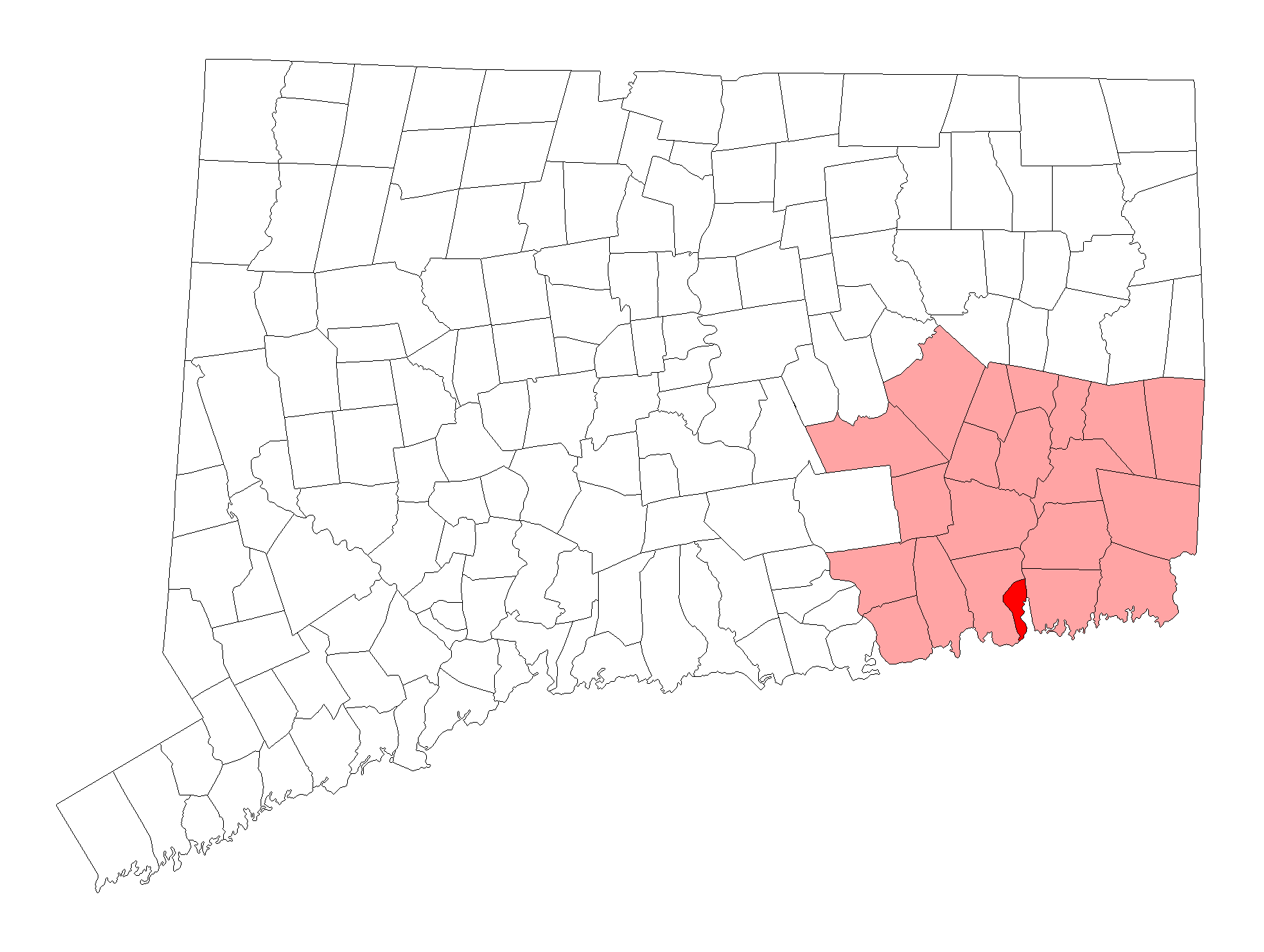 New London, Connecticut on a map of the State